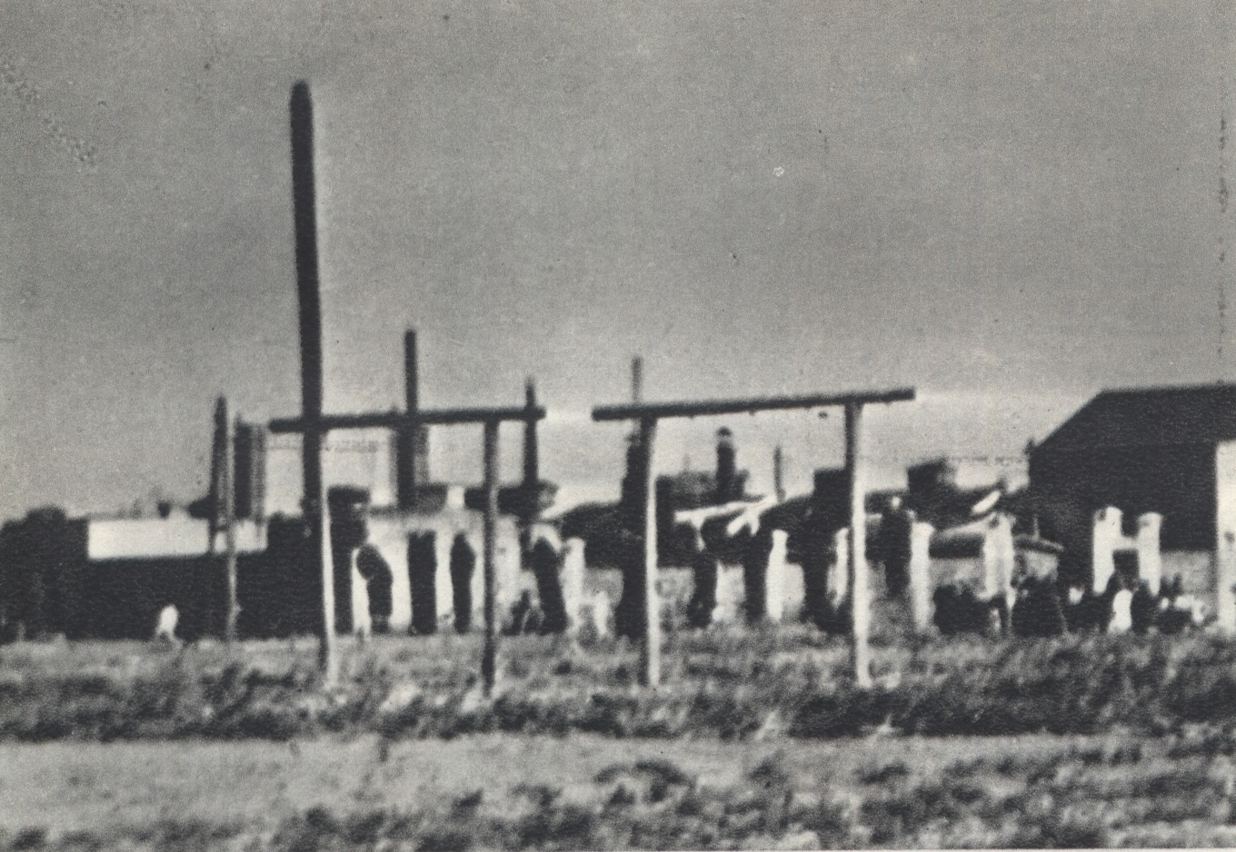 Public execution of Polish hostages in German-occupied Poland. Mszczonowska Street in Warsaw, 16th October 1942.